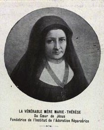 Théodelinde Bourcin-Dubouché, Vénérable Mère Marie-Thérèse du Cœur de Jésus (1809-1863)